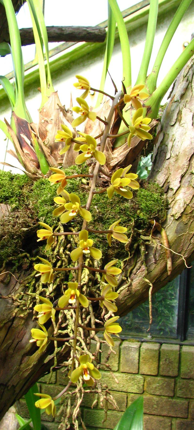 Cymbidium madidum Taken at Princess of Wales Conservatory, Kew Gardens, (London, UK)